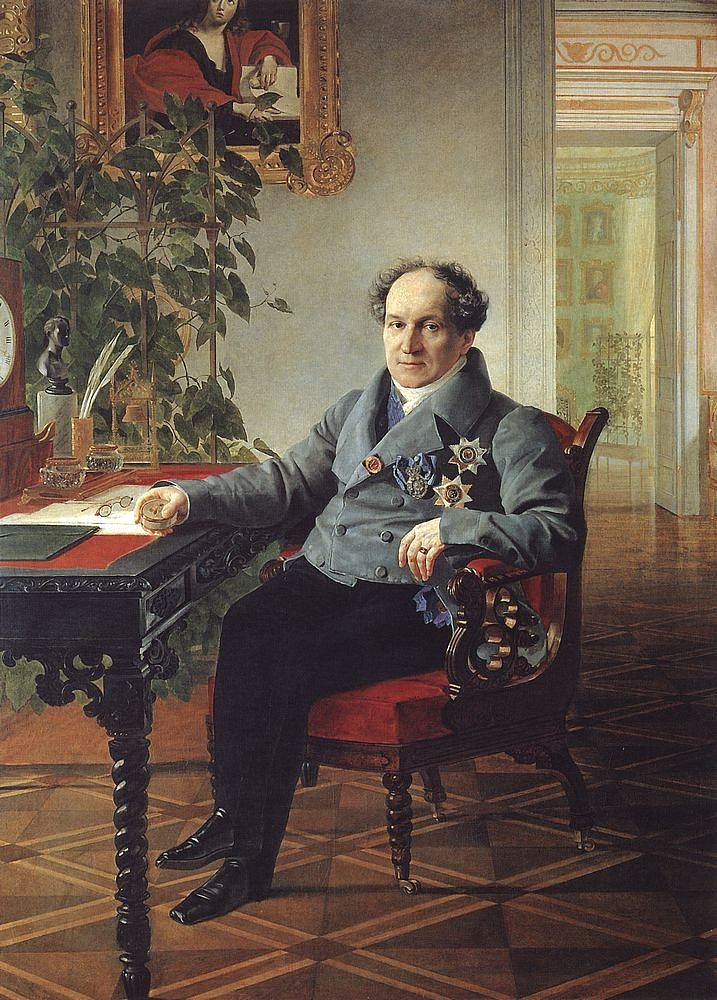 Portrait of the member of the State Council Prince Alexander Golitsyn. From the collection of F. I. Pryanishnikov. Current storage location: State Tretyakov Gallery, Moscow, Russia